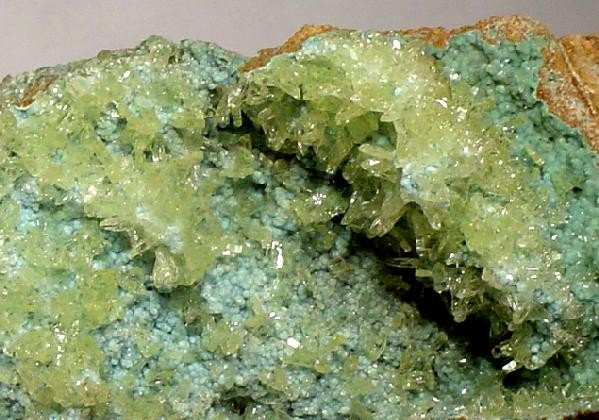 Senegalite, Turquoise Locality: Mount Kourou Diakouma (Kouroudiako), Saraya, Falémé River basin, Tambacounda Region, Senegal (Locality at ) Size: 6.3 x 4.0 x 2.4 cm. Senegalite is a rare aluminum phosphate found in only two localities worldwide and this piece is from the Type Locality in Senegal. This super-rich and showy specimen is from a very recent rediscovery of this rare species and features a well-placed, 4.0 cm vug richly covered with glassy and gemmy, pastel-green senegalite microcrystals on a superbly complimentary turquoise microcrystal-lined limonite gossan matrix.